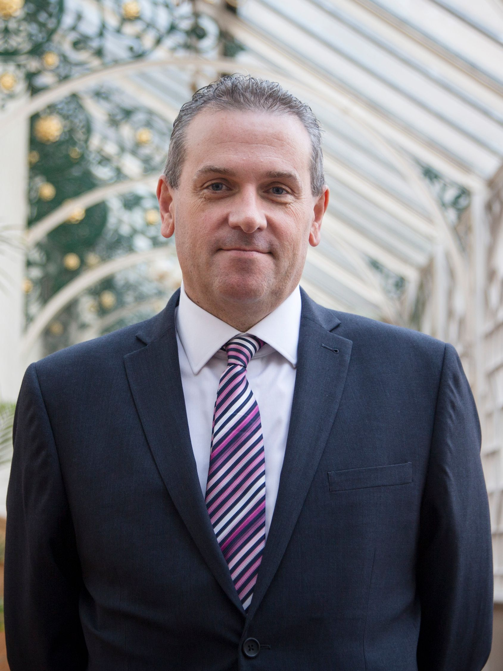 The then-Leader of Birmingham City Council, Cllr John Clancy, seen inside Birmingham Council House.